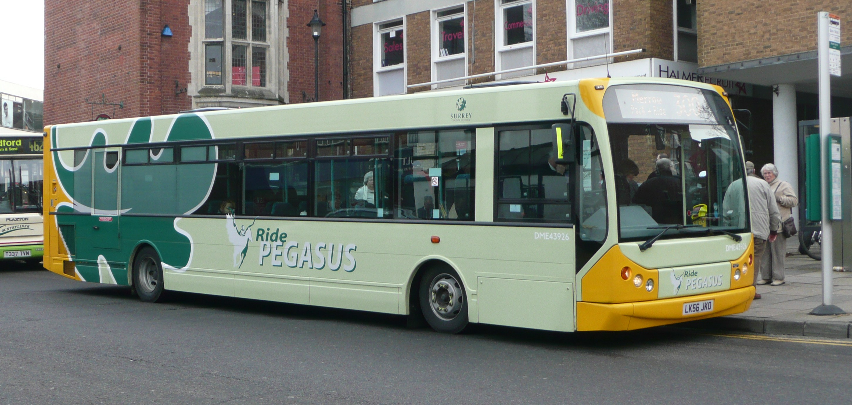 First Berkshire & The Thames Valley's DME43926 (LK56 JKO), a Dennis Dart/East Lancs Myllennium, in Guildford on park and ride route 300.